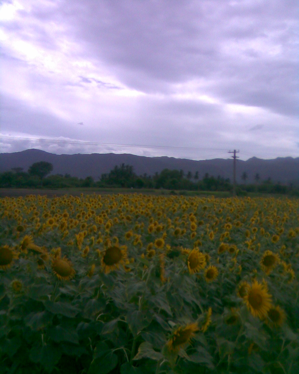 Sunflower cultivation at a village in Perambalur District